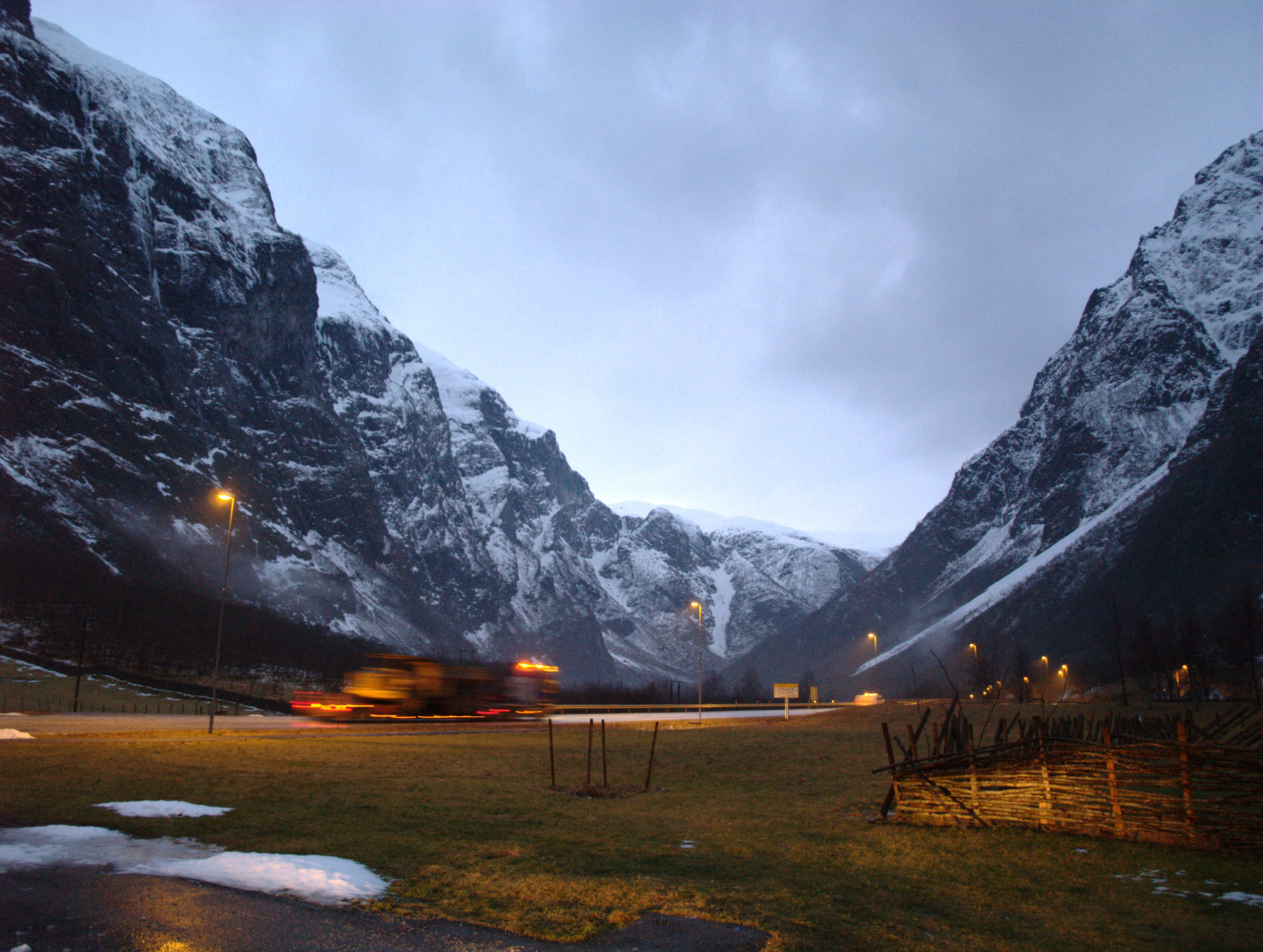 View along the European route E16 in Gudvangen, western part of Norway